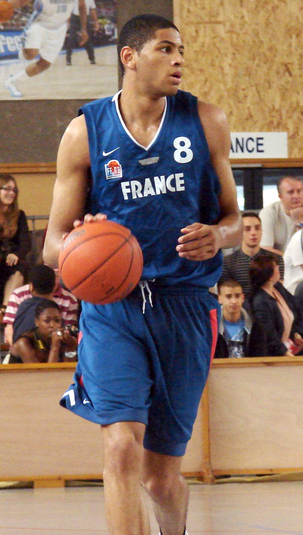 French basketball player Nicolas Batum competing in the 2007 Douai Tournament in France.